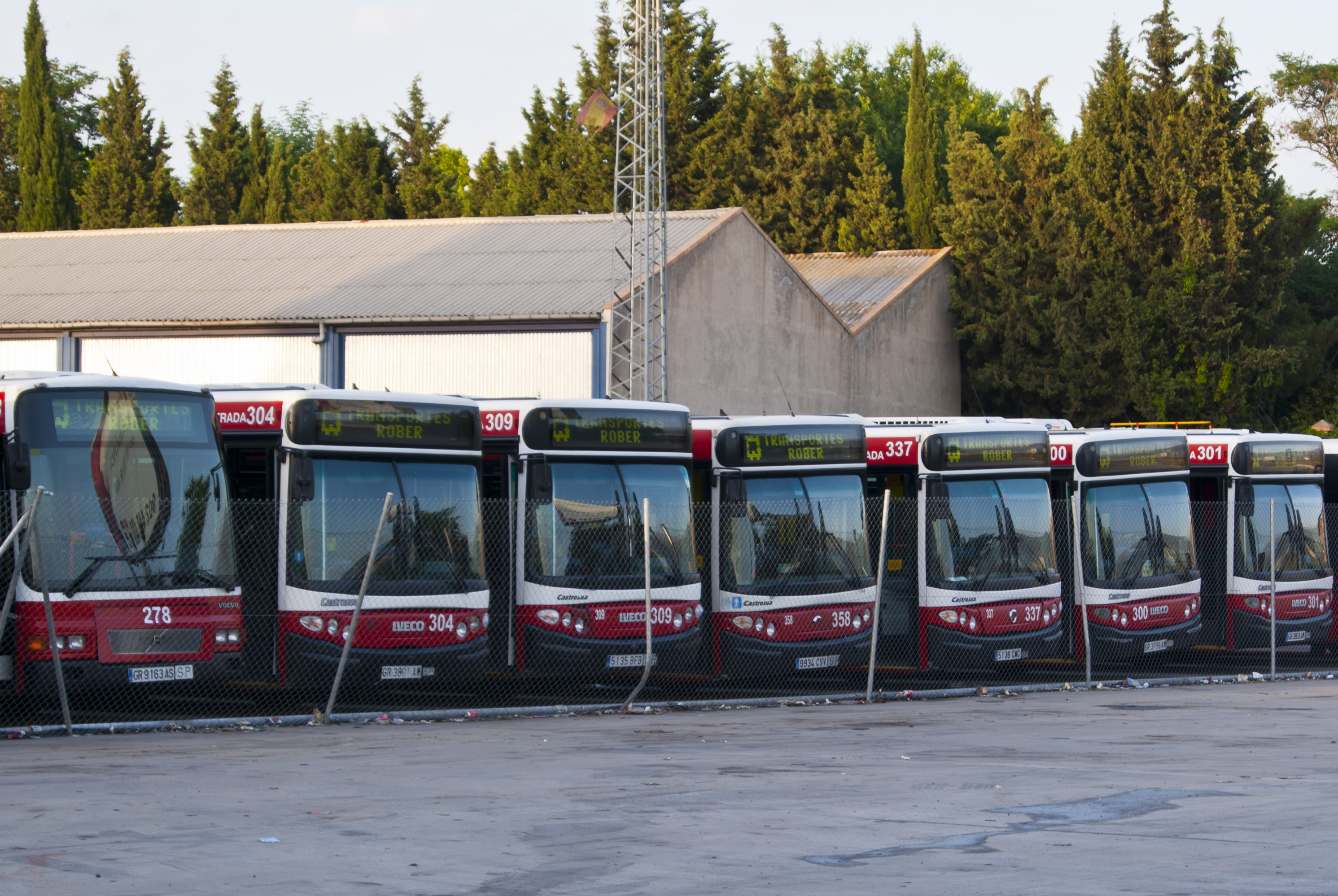 Bus depot in Granada (Spain)